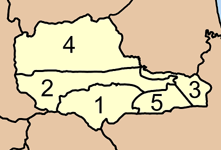 Map of Phrommakhiri district, Nakhon Si Thammarat province, Thailand, with the communes (tambon) numbered. Phrom Lok (พรหมโลก) Ban Ko (บ้านเกาะ) In Khiri (อินคีรี) Thon Hong (ทอนหงส์) Na Riang (นาเรียง)